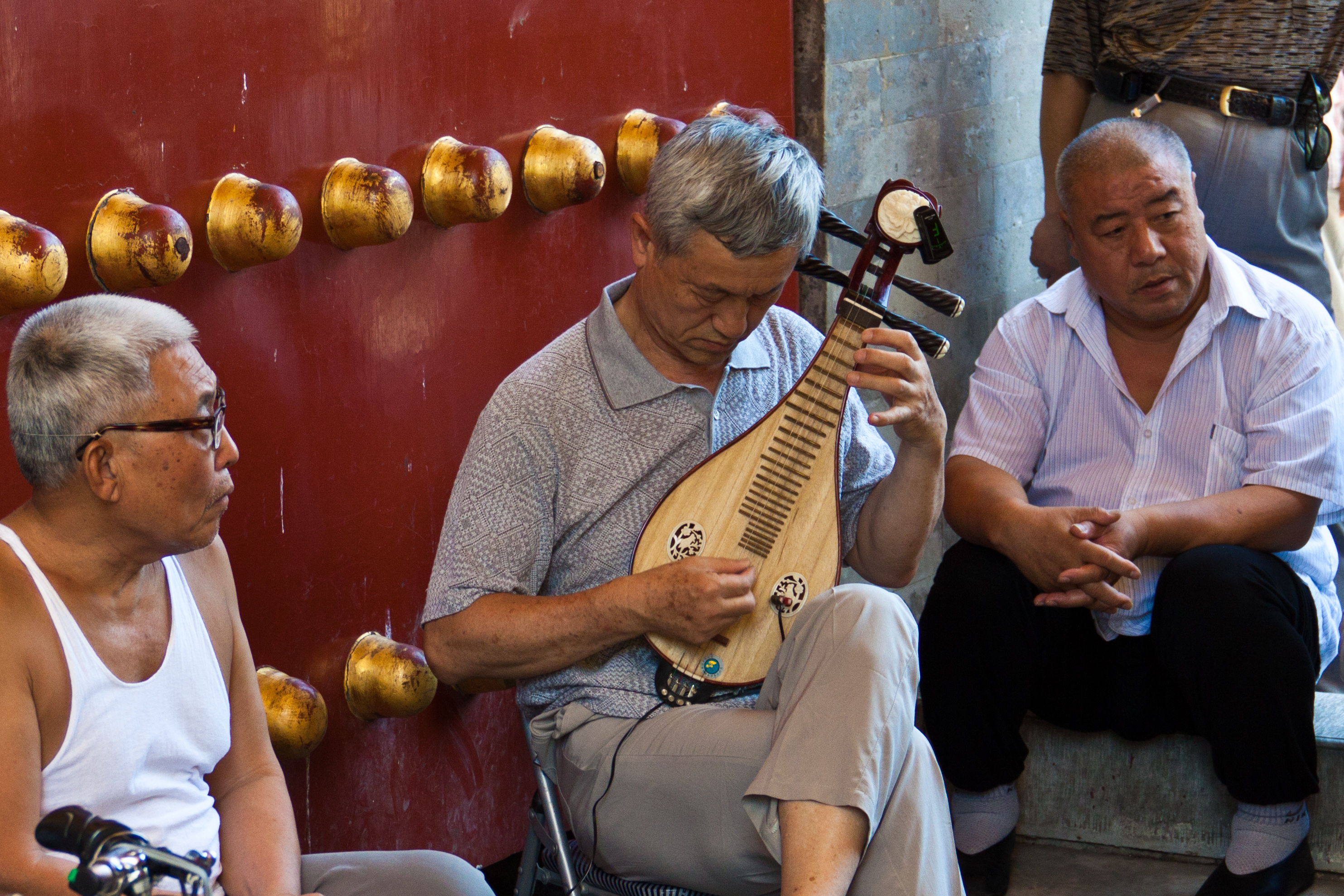 A man playing the liuqin.